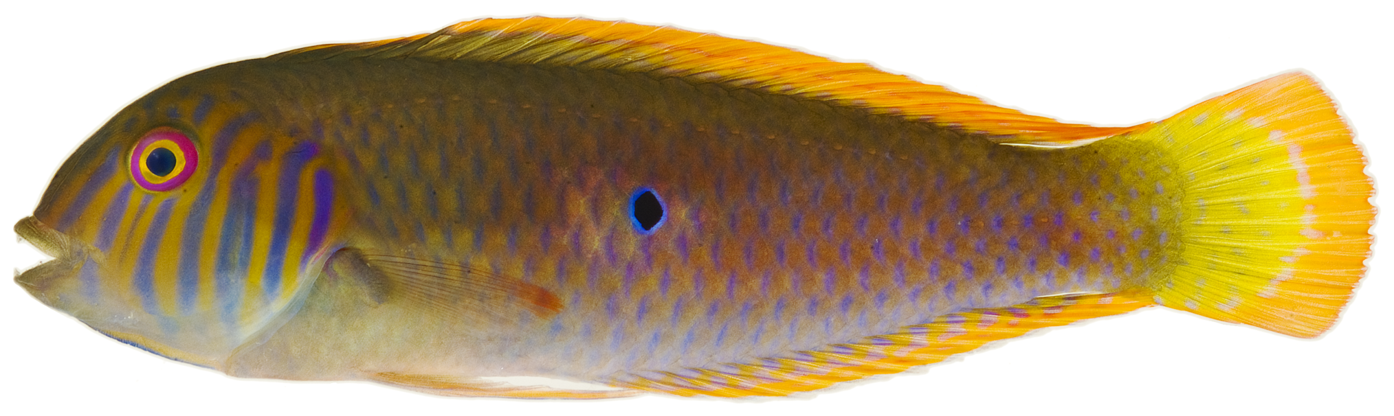 Xyrichtys splendens Castelnau, 1855—green razorfish, 72.5 mm SL, terminal male color phase. Photo by JT Williams.